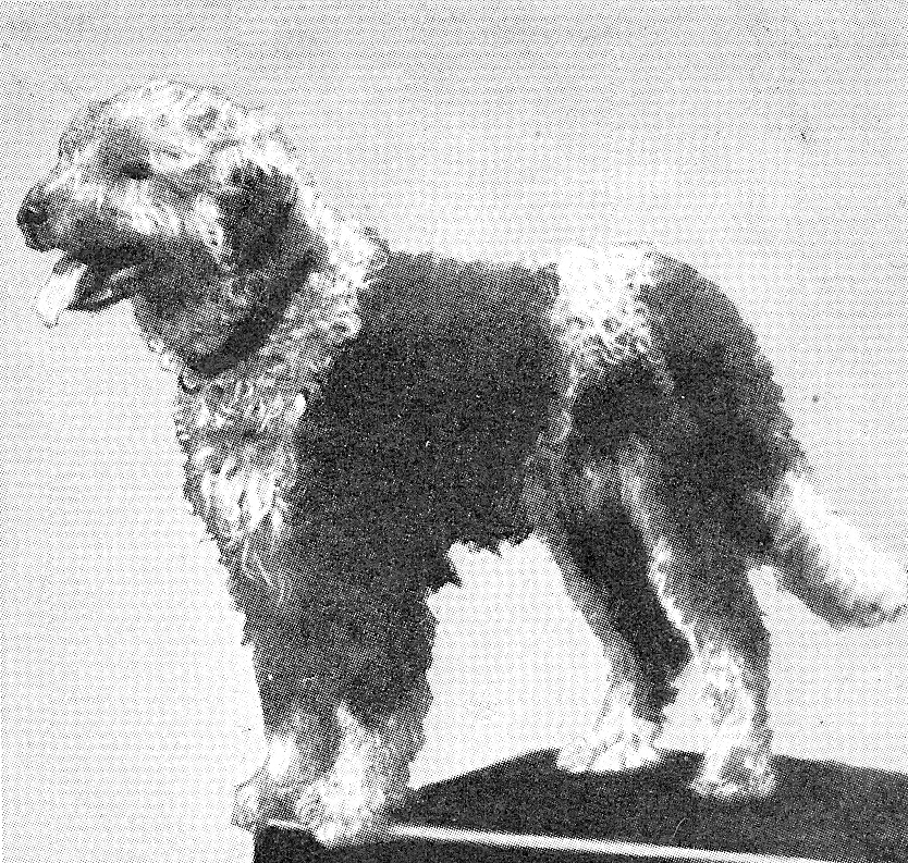 A Barbet from 1932.